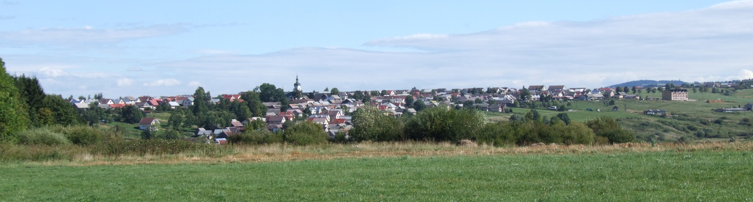 Hladovka